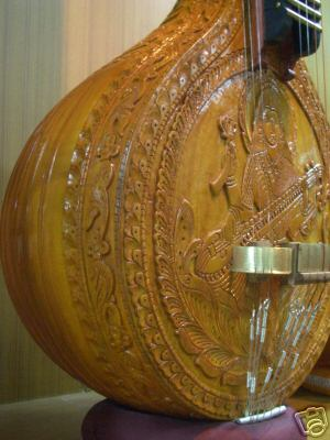 VEENA EKANDAM DEEP CARVED AT